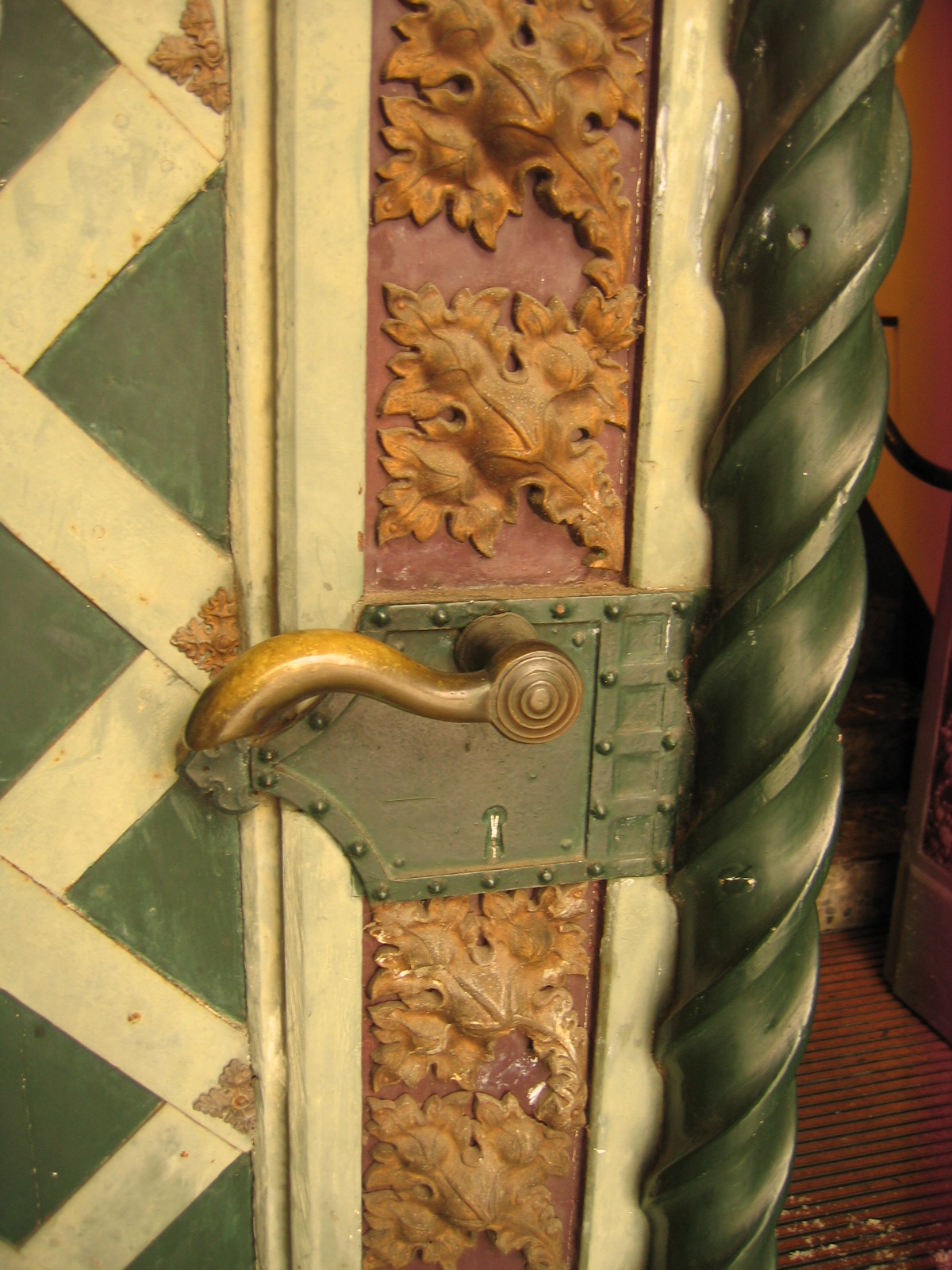 Old government building in Minden, District of Minden-Lübbecke, North Rhine-Westphalia, Germany.